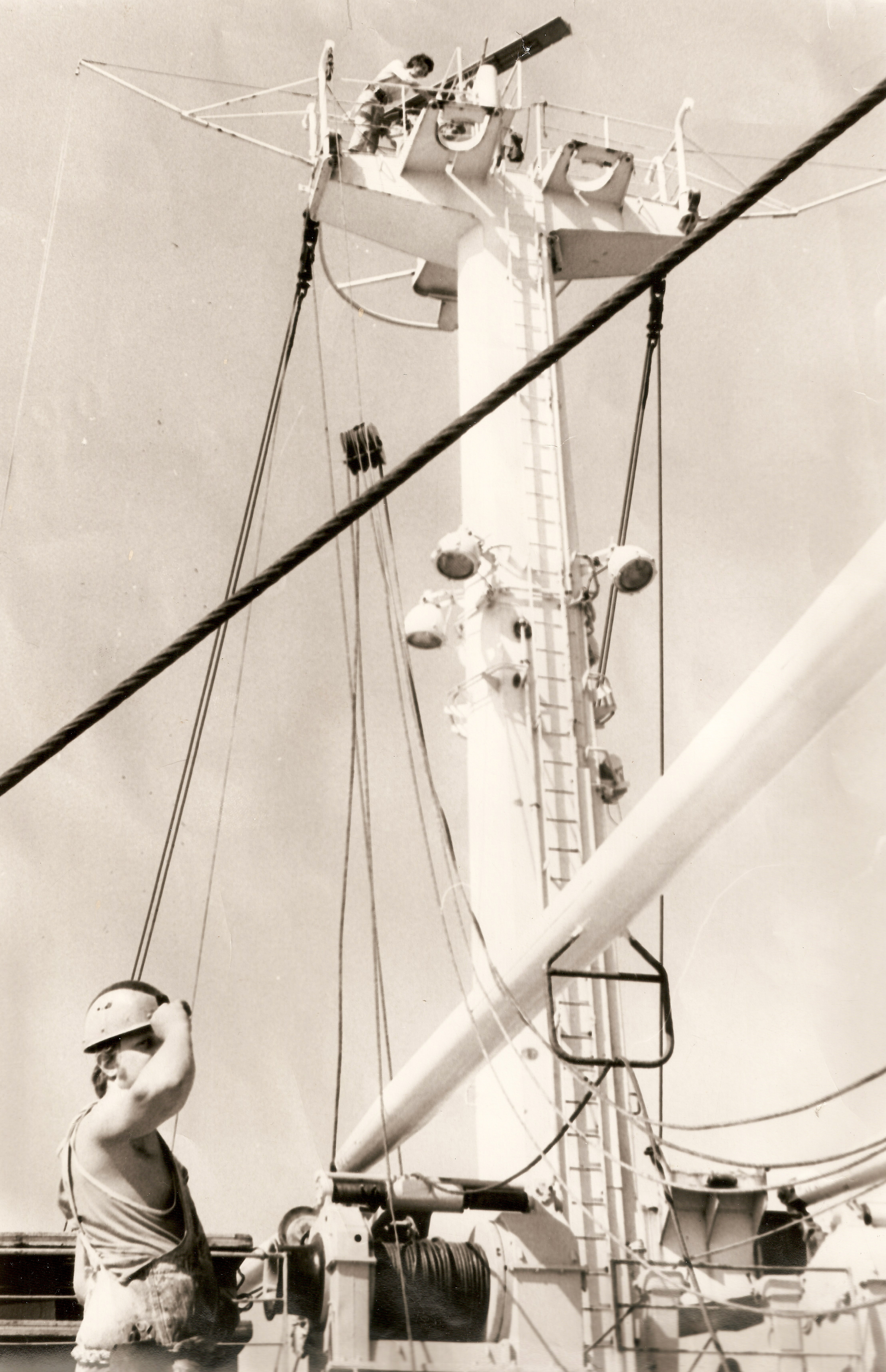 Cargo rigging (mechanisms to load and unload on board ships) aboard of MS Quedlinburg (DSR-Lines)